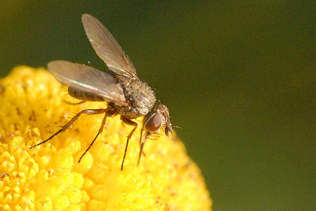 Siphona pauciseta from Commanster, Belgian High Ardennes .